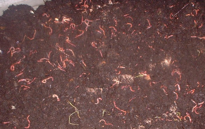 Healthy population of Reds in a disturbed worm bin